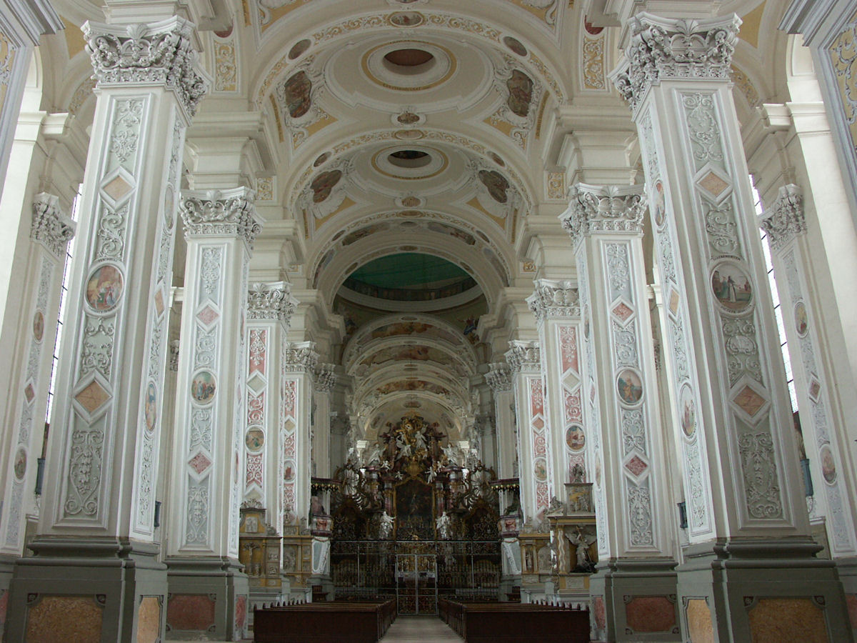 Schöntal Abbey, Schöntal, Germany